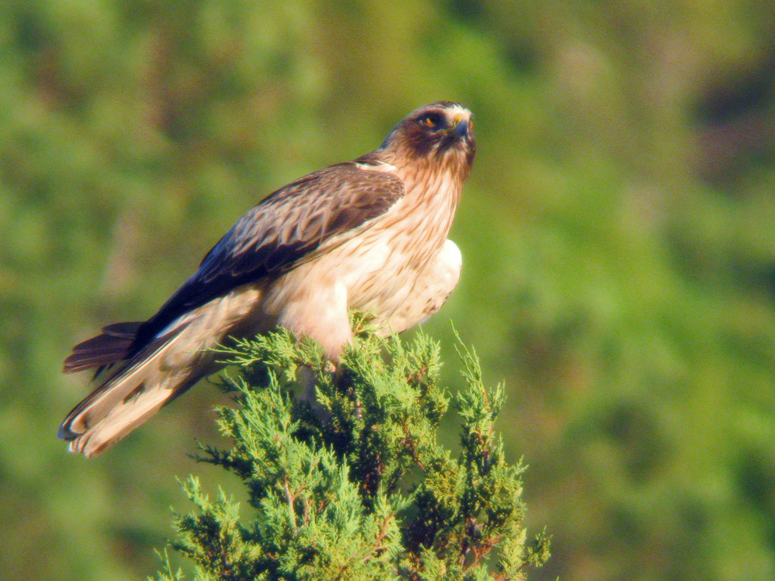 Young Booted Eagle Hieraaetus pennatus, picture taken in the province of Burgos (Spain)